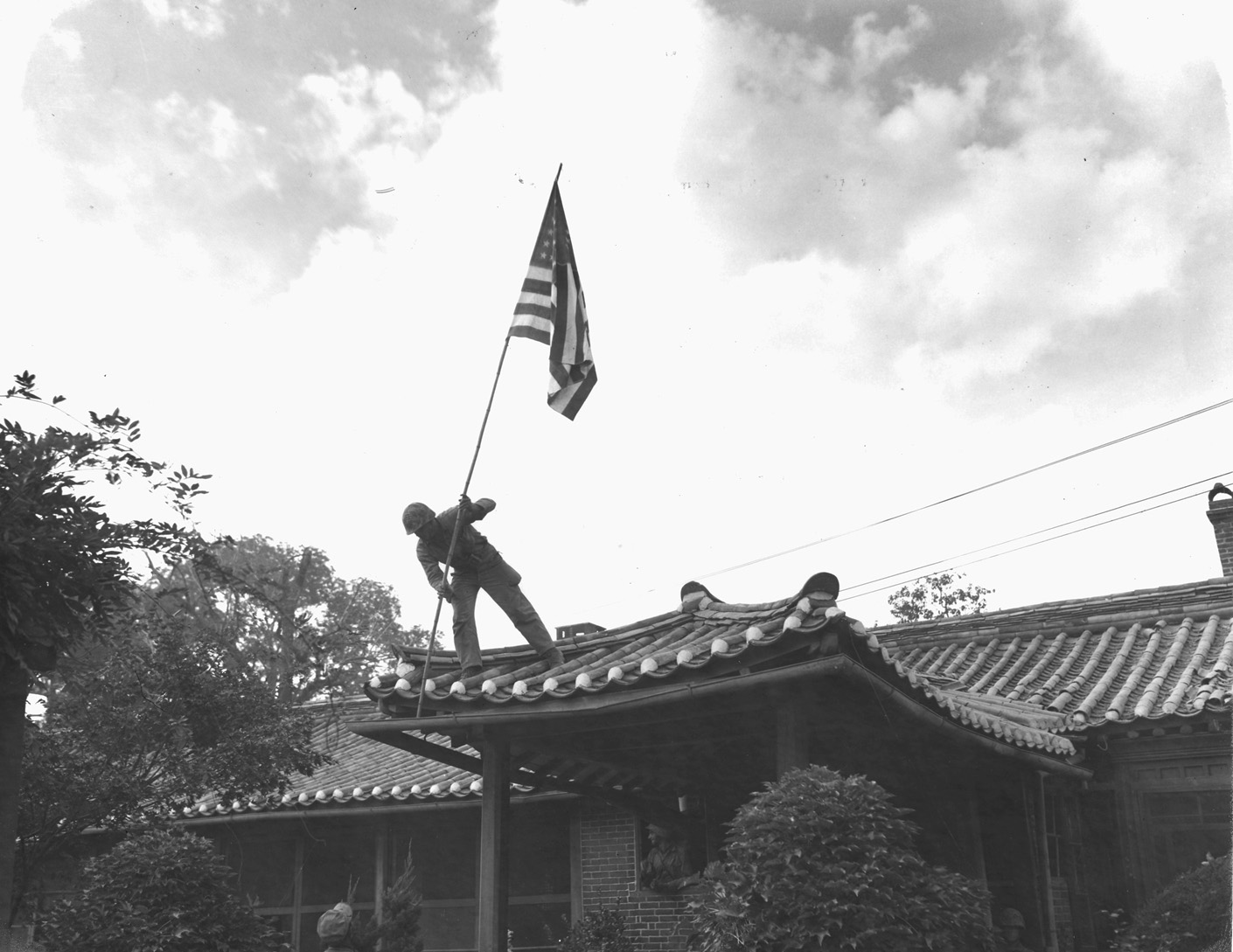 A U.S. Marine raises the U.S. flag at the American consulate in Seoul, Korea, while fighting for the city raged around the compound. The name of the Marine was Luther "Lee" Leguire.